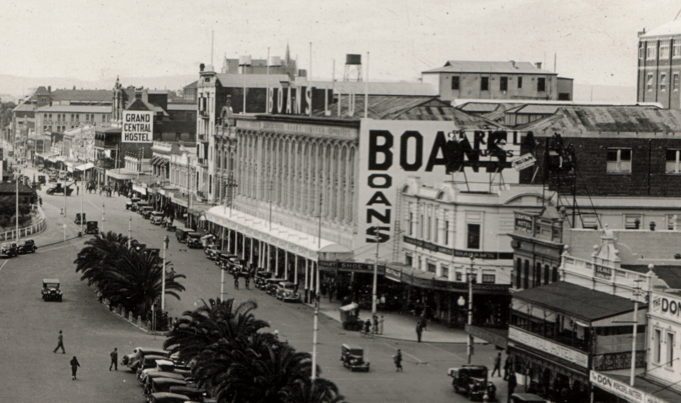 Boans Department Store, Wellington St, Perth.